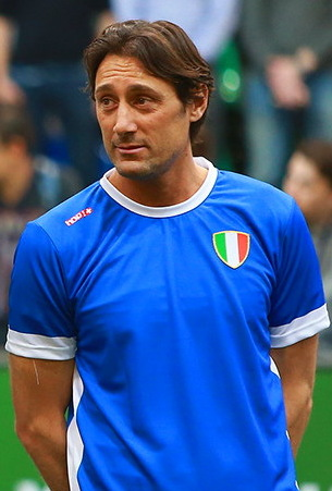 Diego Fuser, Marco Cassetti, Marco Ballotta